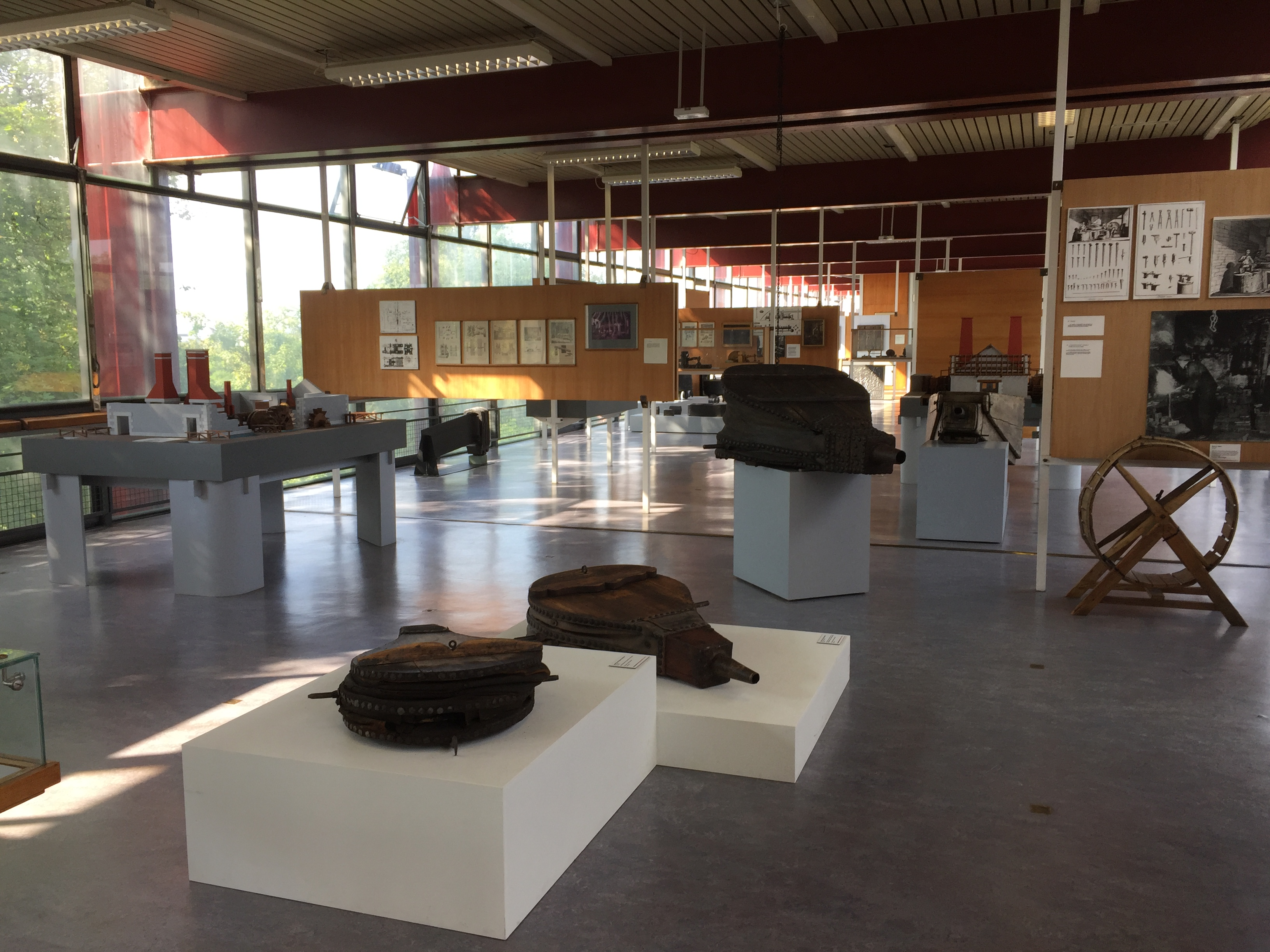 Musée de l'histoire du fer (iron history museum) in Jarville-la-Malgrange, France in 2018